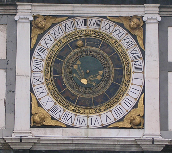 Astronomical clock at Brescia, Italy. Original caption: “I took this photograph myself, and now choose to release it in to the "public-domain"”